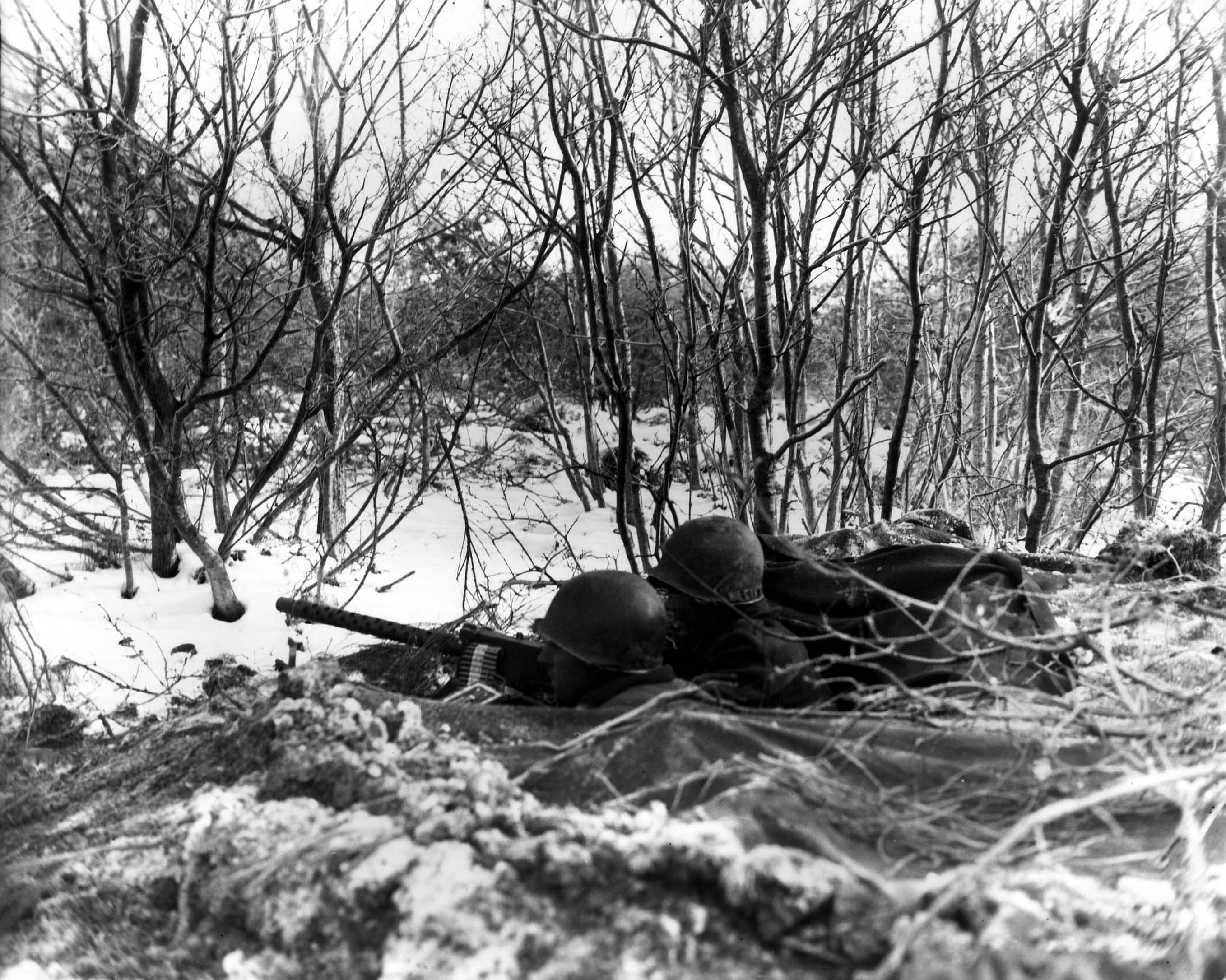 A roadblock is set up with 30 caliber heavy machine gun, and a tank destroyer is ready for action on Adolf Hitler Strasse, Niederbronn les-Bains, France, by the 1st Battalion, 157th Regiment, 45th Division. Signal Corps Photo 364301, #6AG-27702/ETO-HQ-44-29123